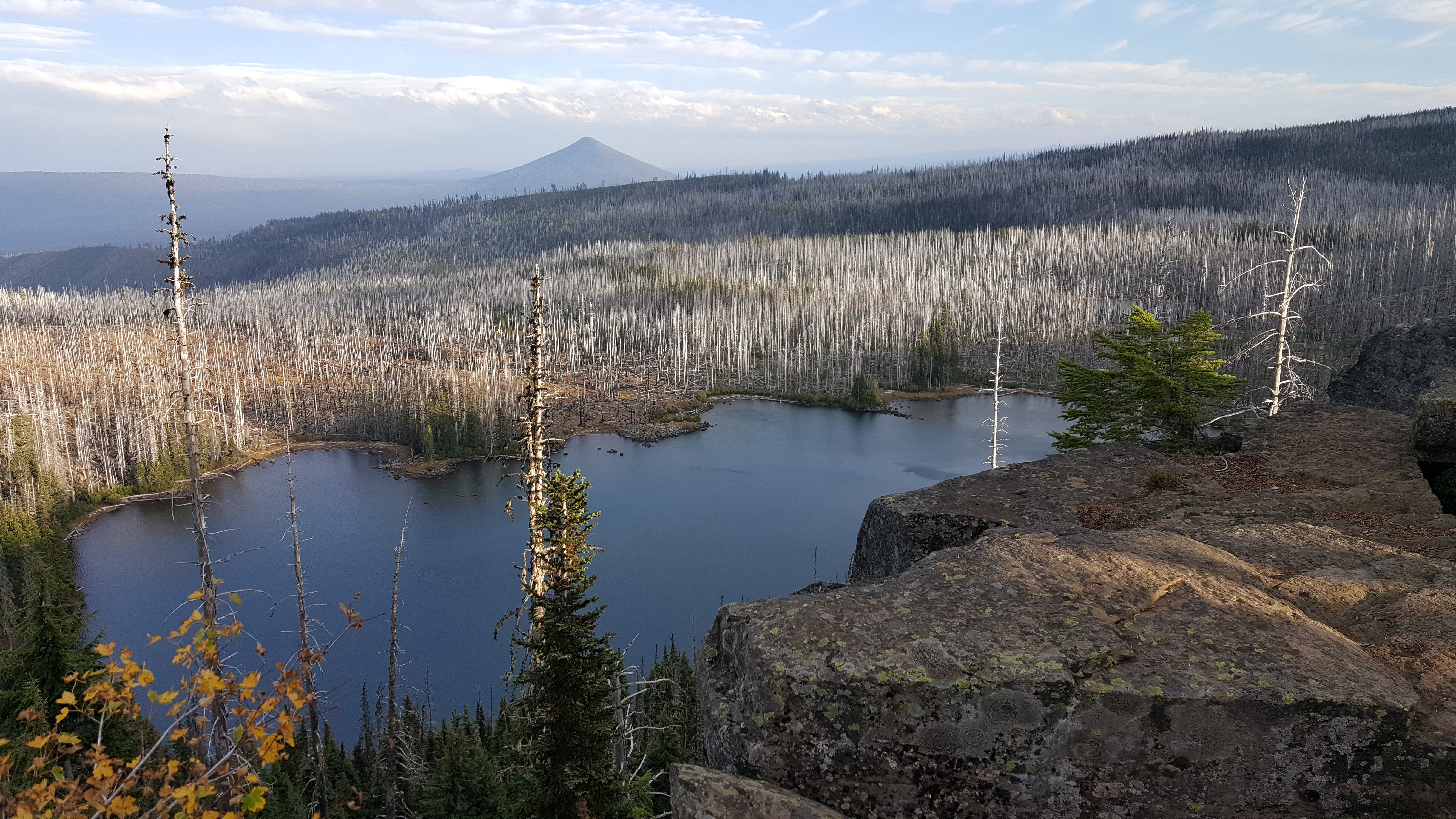 Wasco Lake as seen from the Pacific Crest Trail in early Autumn.